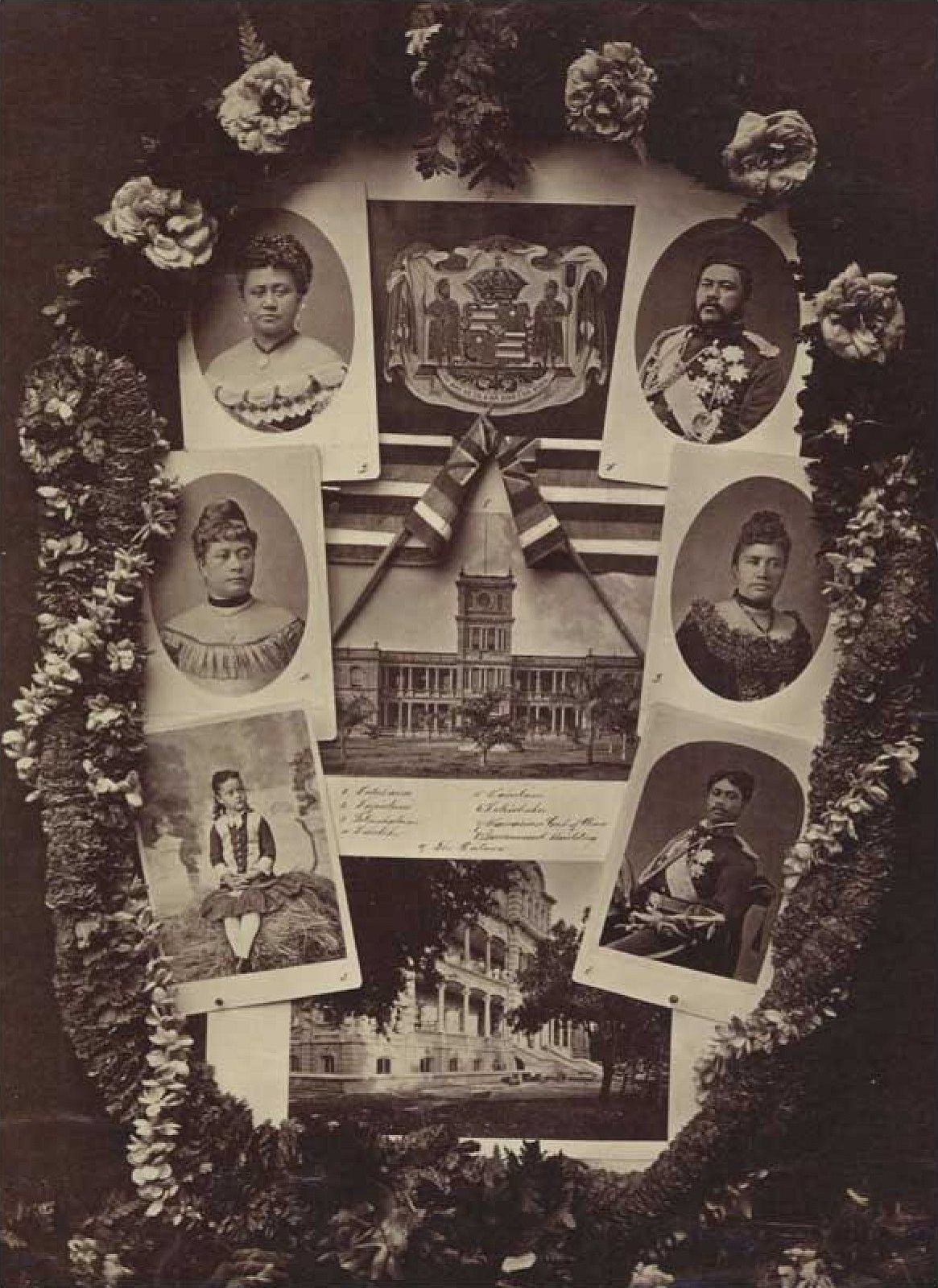 A collage of the Kalakaua Dynasty with (left to right) Kapiolani and Kalakaua, Likelike, Liliuokalani, Kaiulani and Leleiohoku.